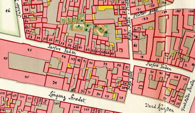 The street Farvergade seen on Christian Gedde's district map of Copenhagen